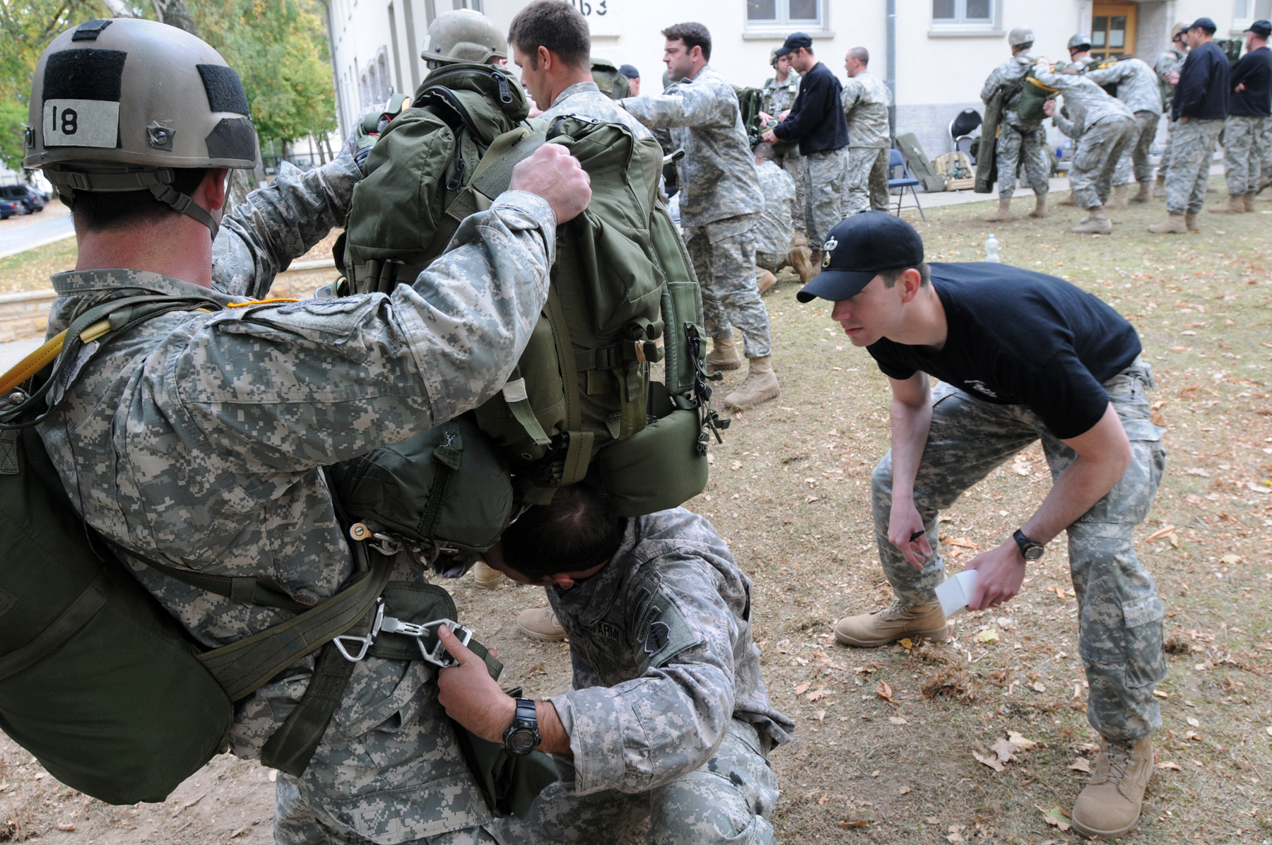 An instructor from the U.S. Army Jumpmaster Mobile Training Team observes as a student performs his jumpmaster personnel inspections sequence. The 10th Special Forces Group (Airborne) MTT came from Fort Carson, Colo., to conduct the two-week course at Stuttgart, Germany, for airborne-qualified Soldiers. See more at Special Ops Soldiers earn coveted title of 'Jumpmaster'